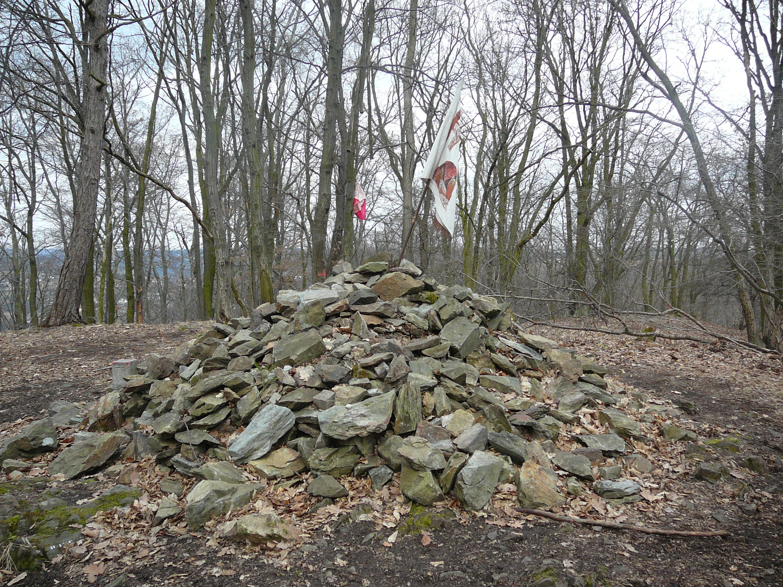 The hilltop of Medník (417 m) hill, Central Bohemia, the Czech Republic